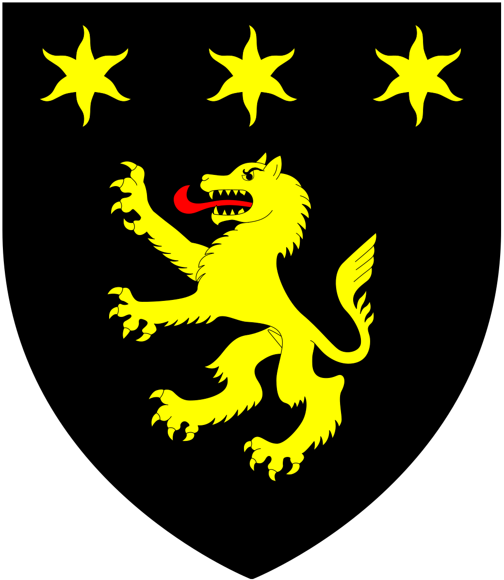 Arms of Wilson (Maryon-Wilson baronets): Sable, a wolf rampant in chief three estoiles or (Montague-Smith, P.W. (ed.), Debrett's Peerage, Baronetage, Knightage and Companionage, Kelly's Directories Ltd, Kingston-upon-Thames, 1968, p.865)